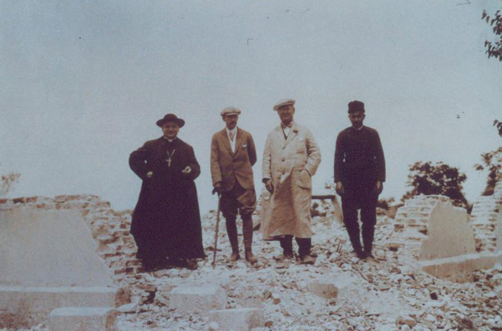 Mons. Angelo Giuseppe Roncalli with King Boris III in Belozem, after the earthquake of April 1928